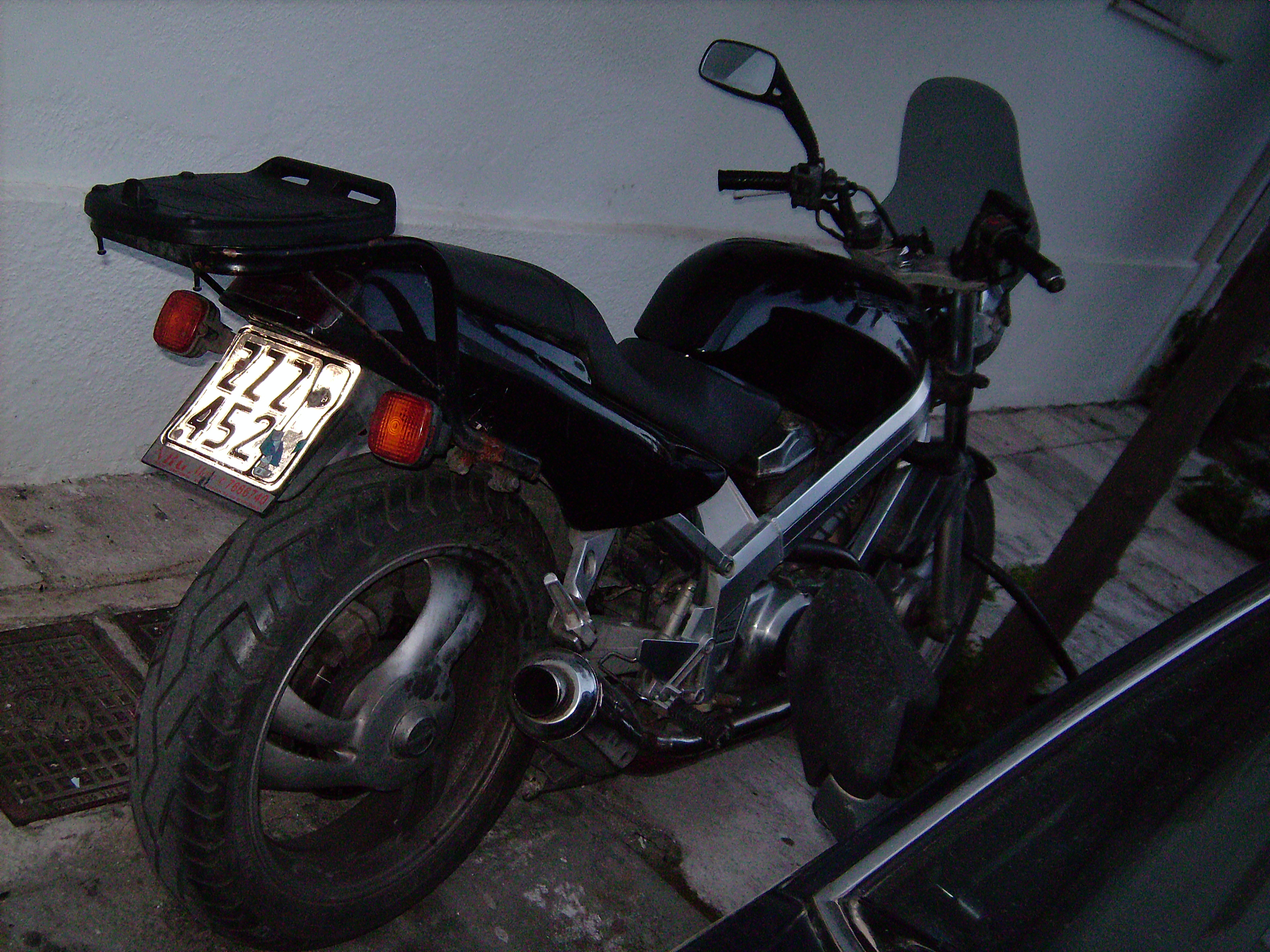 picture of Honda NT 400